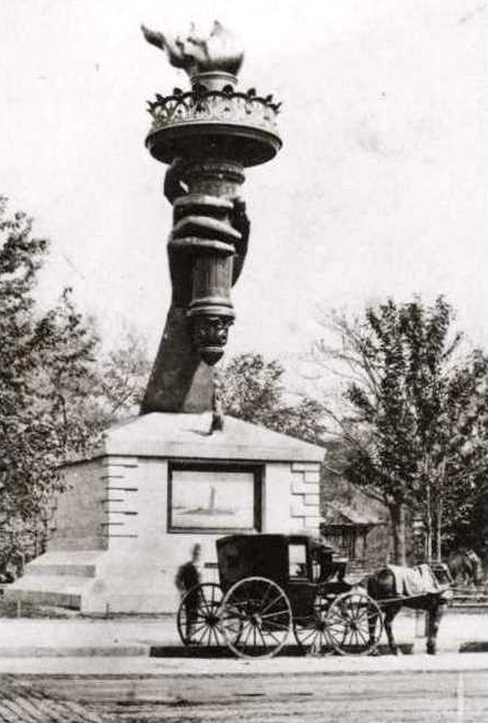 Between 1876 and 1882, the Statue of Liberty arm was in Madison Square Park for fund-raising to complete the Statue. Anyone could pay 50 cents to climb to the torch balcony.